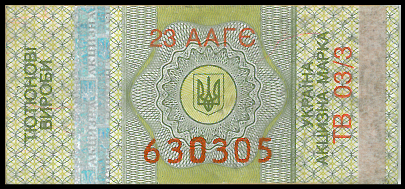 Excise stamp of Ukraine on tobacco products, 2003